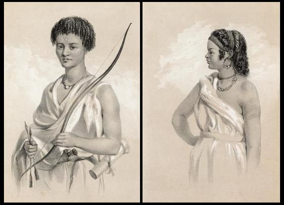 Eesah Somauli / Issa man and woman in traditional attire (1844)